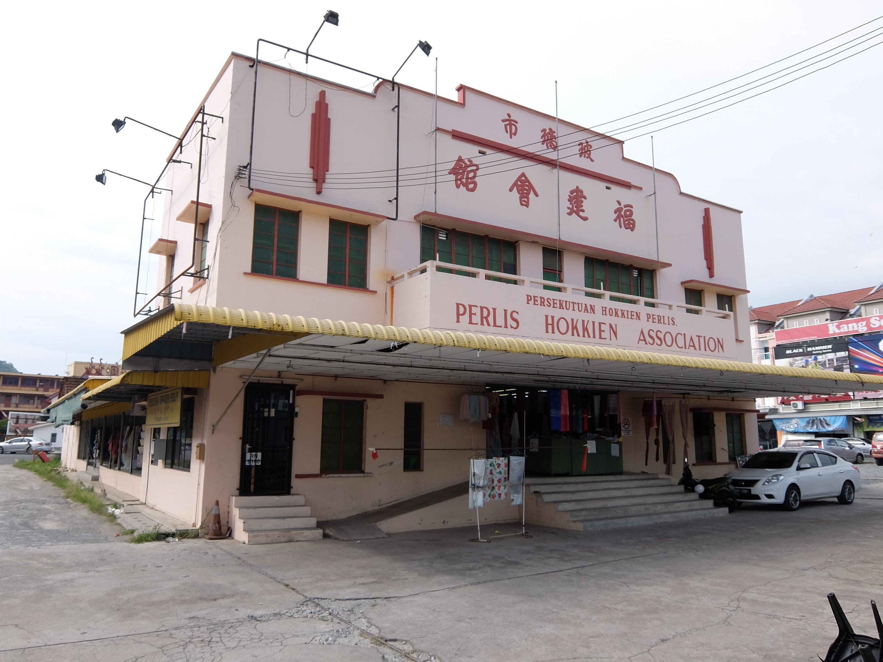 Perlis Hokkien Association, Kangar, Perlis, Malaysia